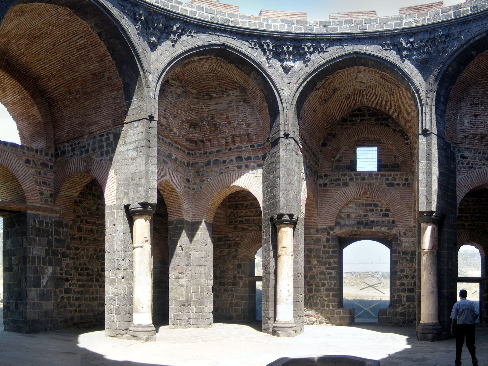 Diyarbakir: Ruine of St. George Church (Saint George Kilisesi), 3rd century.